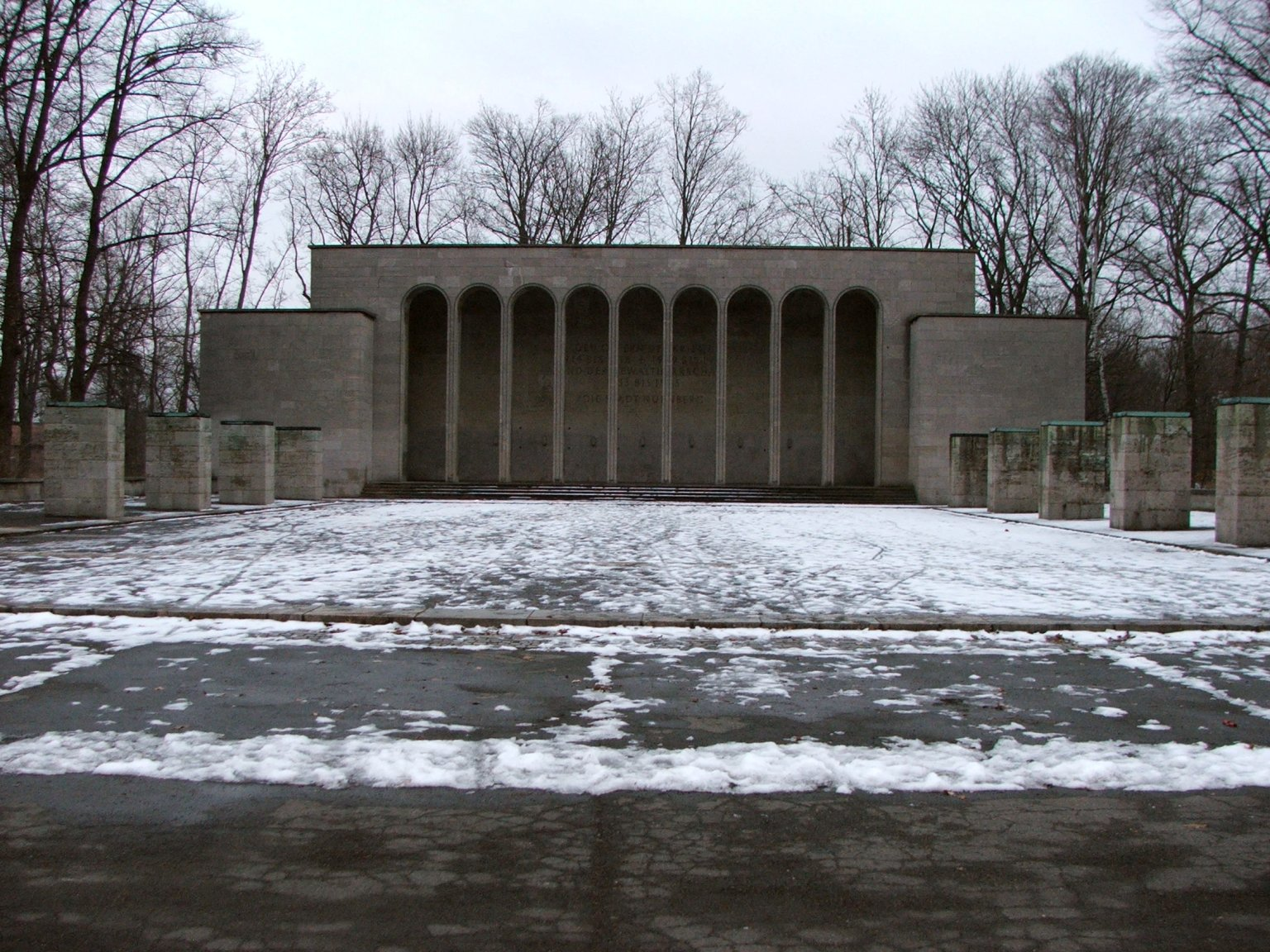 Ehrenhalle at the Luitpoldhain (former part of the Nazi Party Rallyground) in Nurmberg